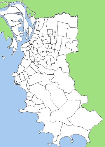 Porto Alegre Neighborhoods Map